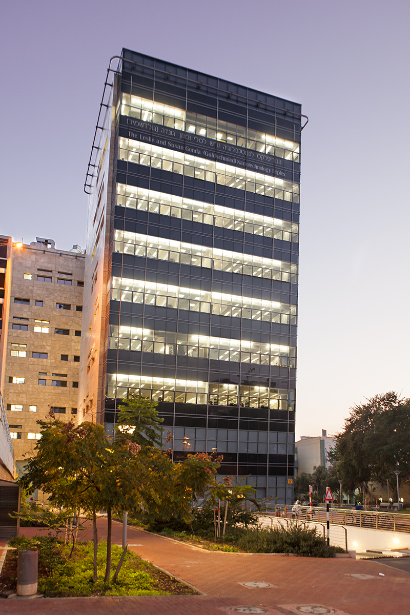 THE LES LIE AND SUSAN GONDA (GOLDSCHMIED)NANOTECHNOLOGY TRIPLEX